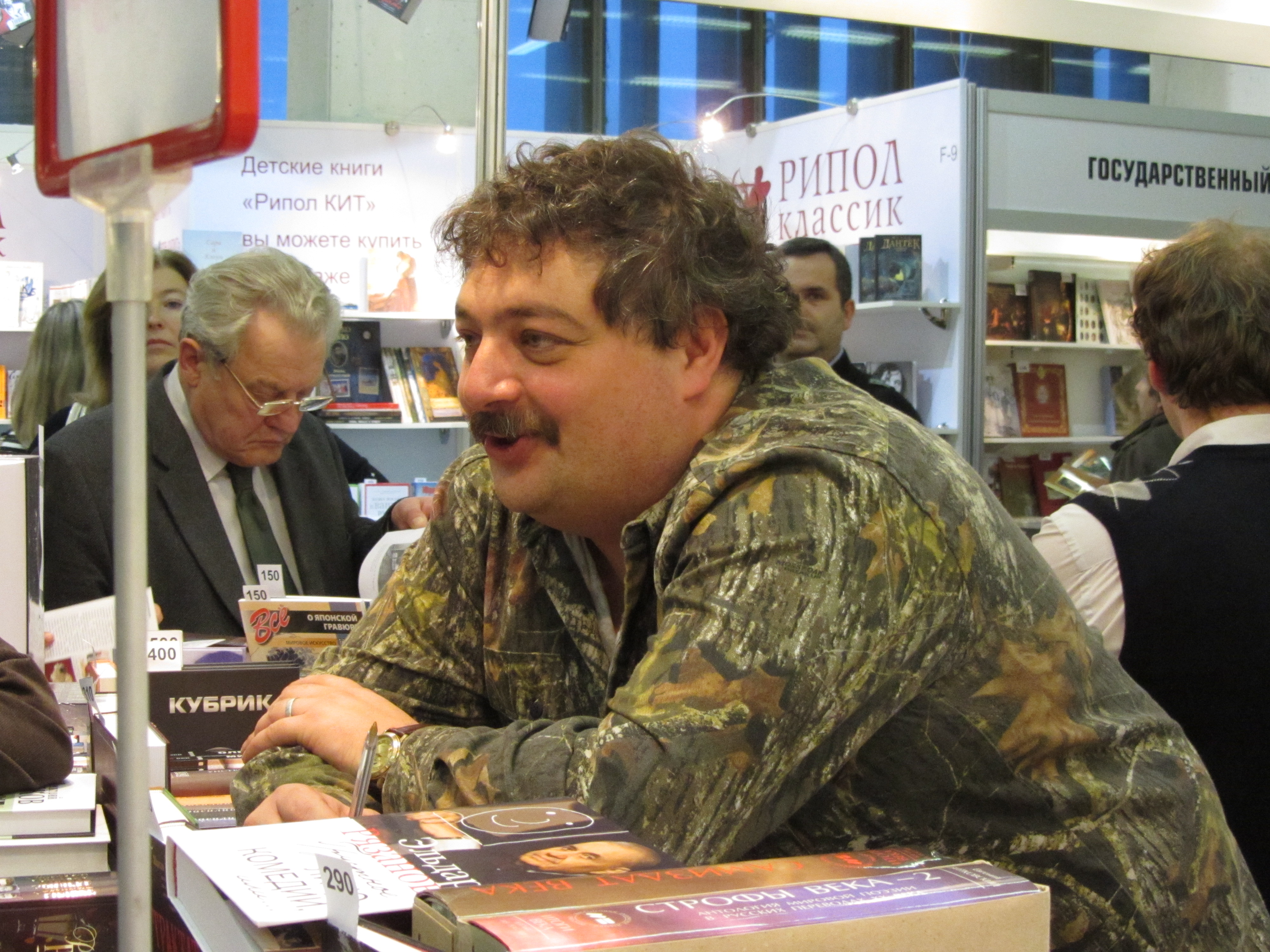 Russian writer Dmitrii Bykov at the 14 Moscow International Fair of Intelectual Books, Non-Fiction 2012